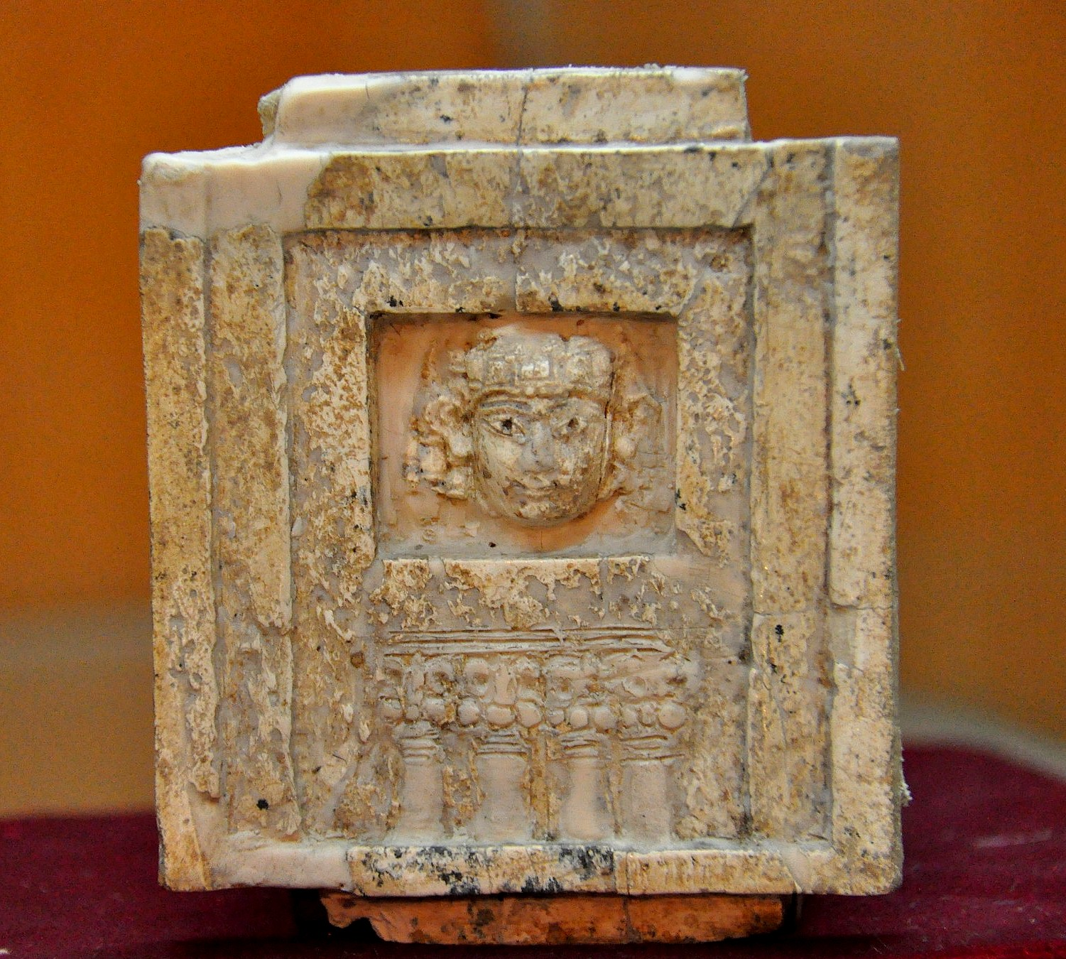 "The lady of the window" or "the woman at the window", one of the famous scenes in the Phoenician style of ivory carving. Ivory, from Nimrud, Iraq, 9th to 7th century BC. Found by Sir Max Mallowan. The Sulaymaniyah Museum, Iraq.